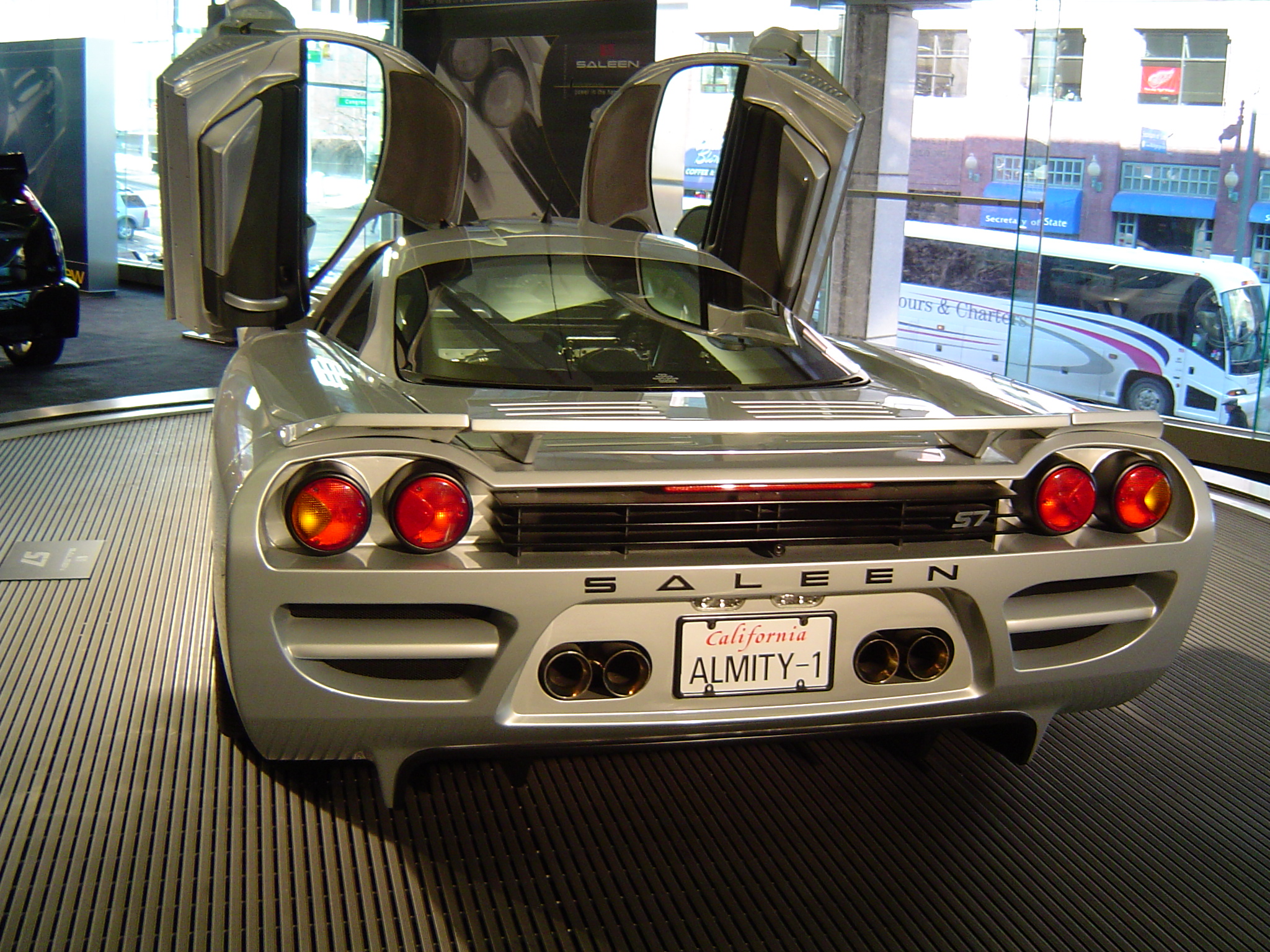 2004 Saleen S7 in the movie: "Bruce Almighty"